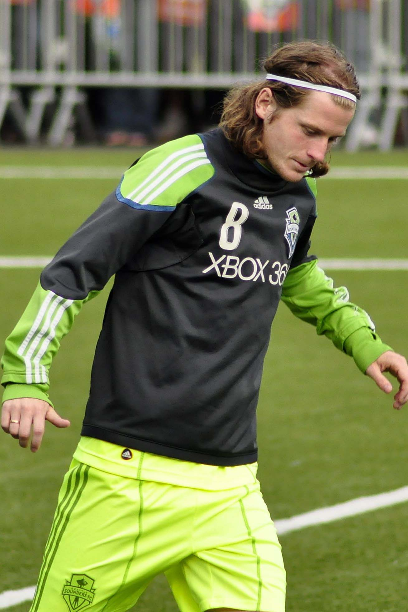 Swedish soccer players Erik Friberg of Seattle Sounders warming up before a US Open Cup match against the Los Angeles Galaxy.